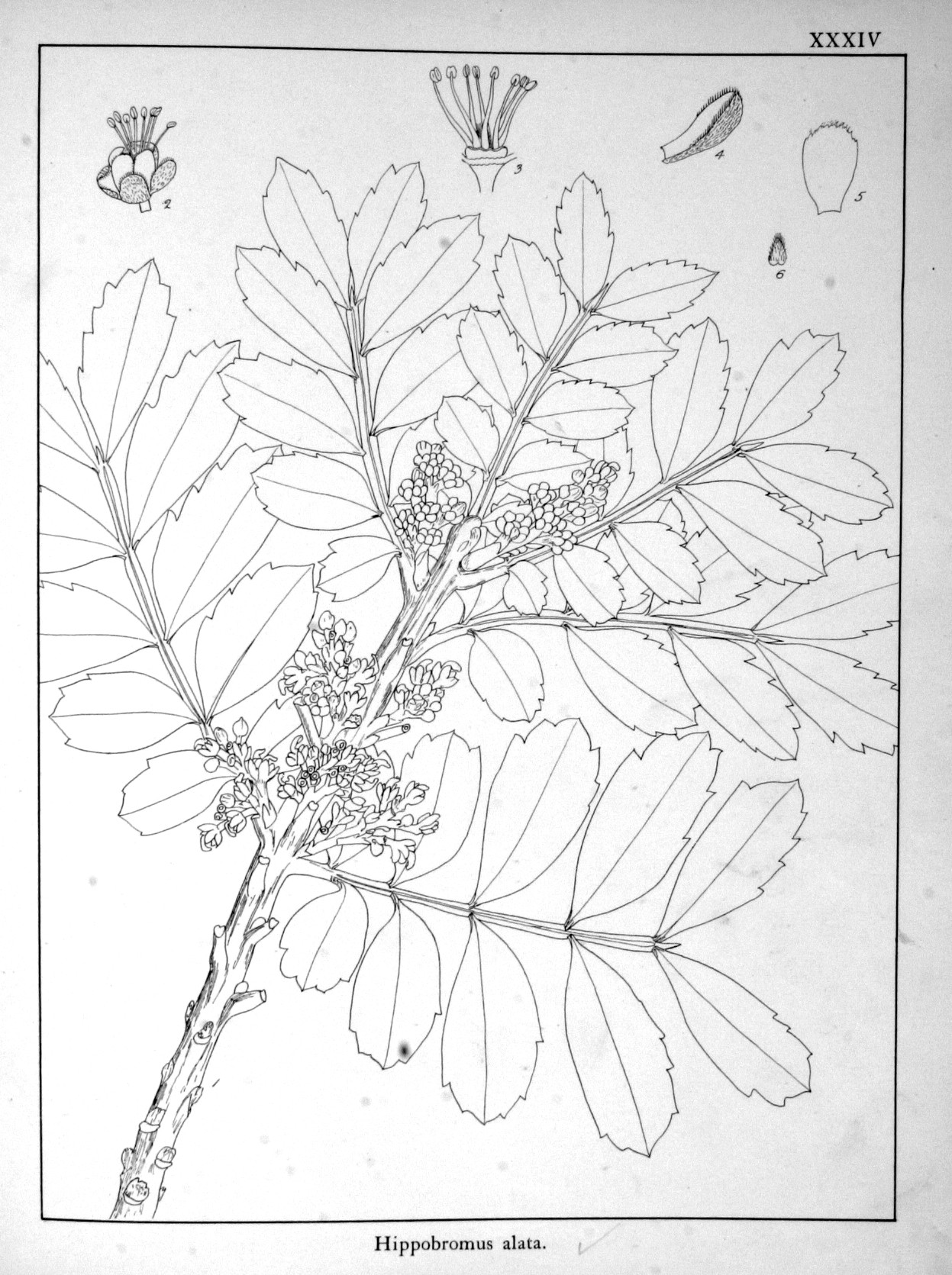 Line drawing of the False Horsewood, a South African tree species IsiXhosa: uLwathile, umFazi onengxolo IsiZulu: uQhume, isiPhahluka